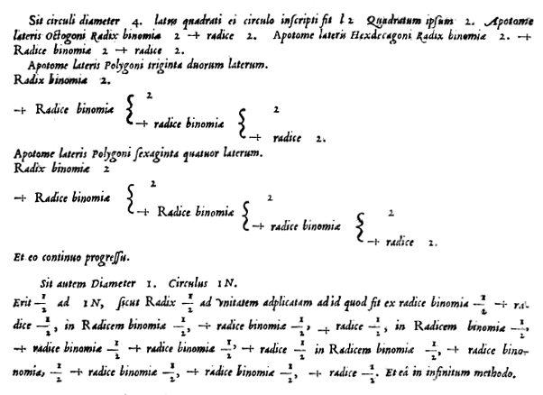 The original formulation by François Viète of Viète's formula, an infinite product representation of π, as published by Viète in his Variorum de rebus mathematicis responsorum, liber VIII (1593)